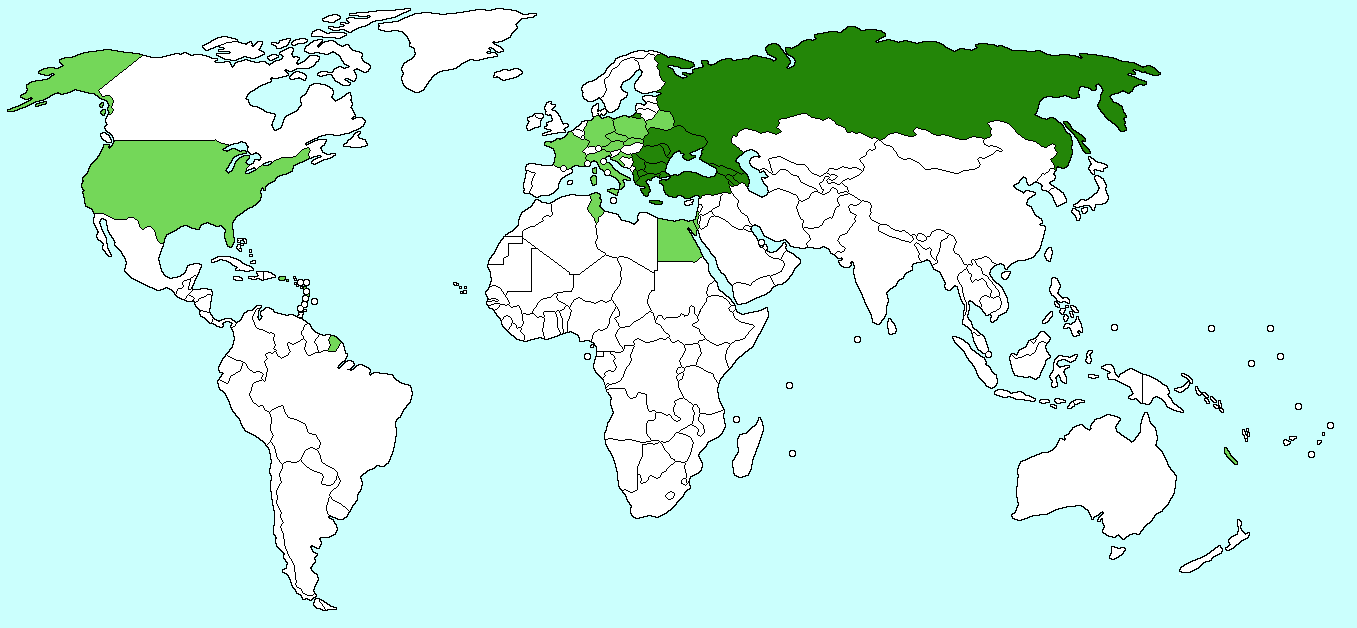 Map of the Black Sea Economic Cooperation (and observer states). Created by Aris Katsaris modifying Image:BlankMap-World-v2.png. Aris Katsaris 22:02, 15 March 2006 (UTC)